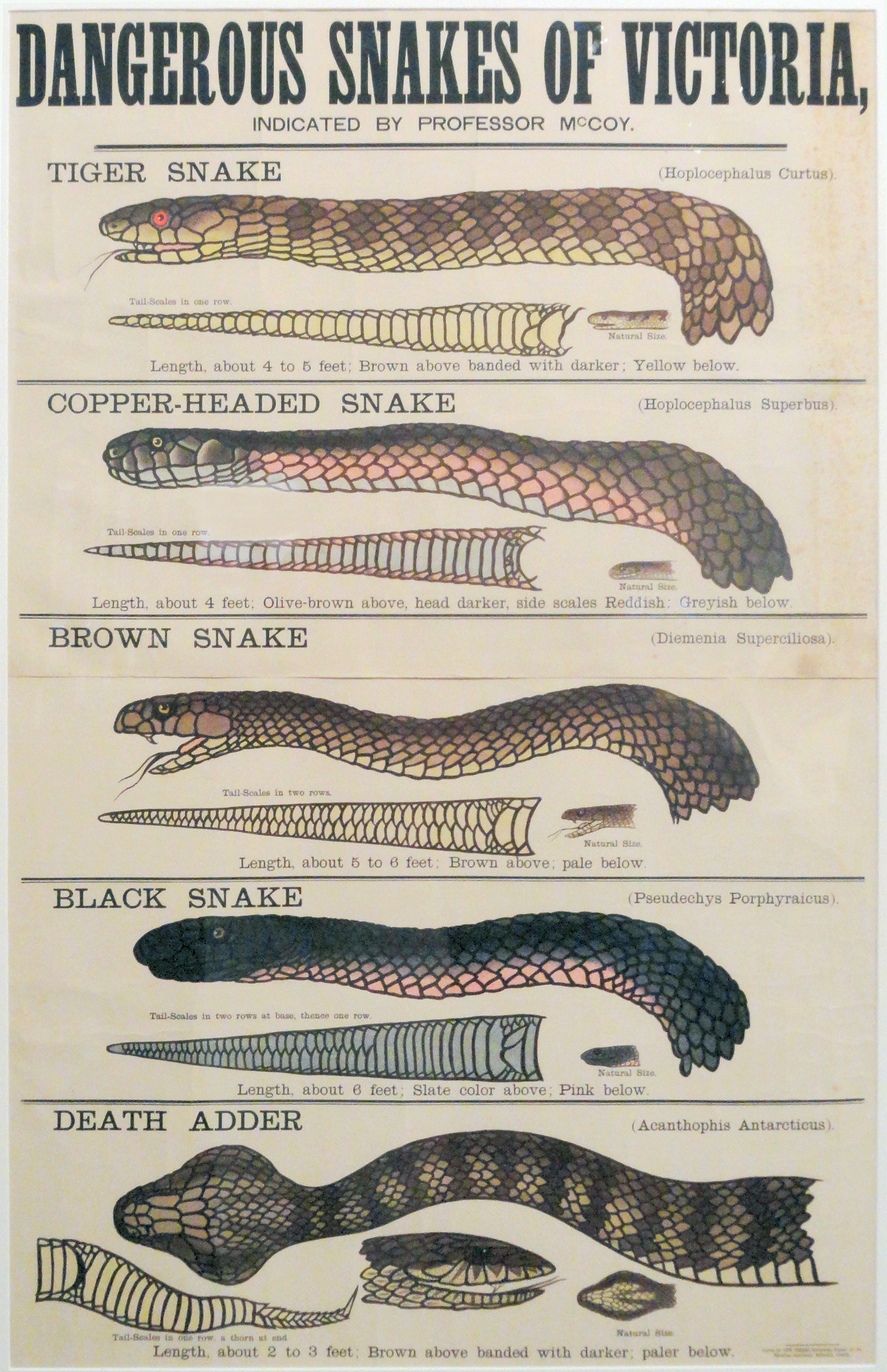 Photograph of a 1877 poster